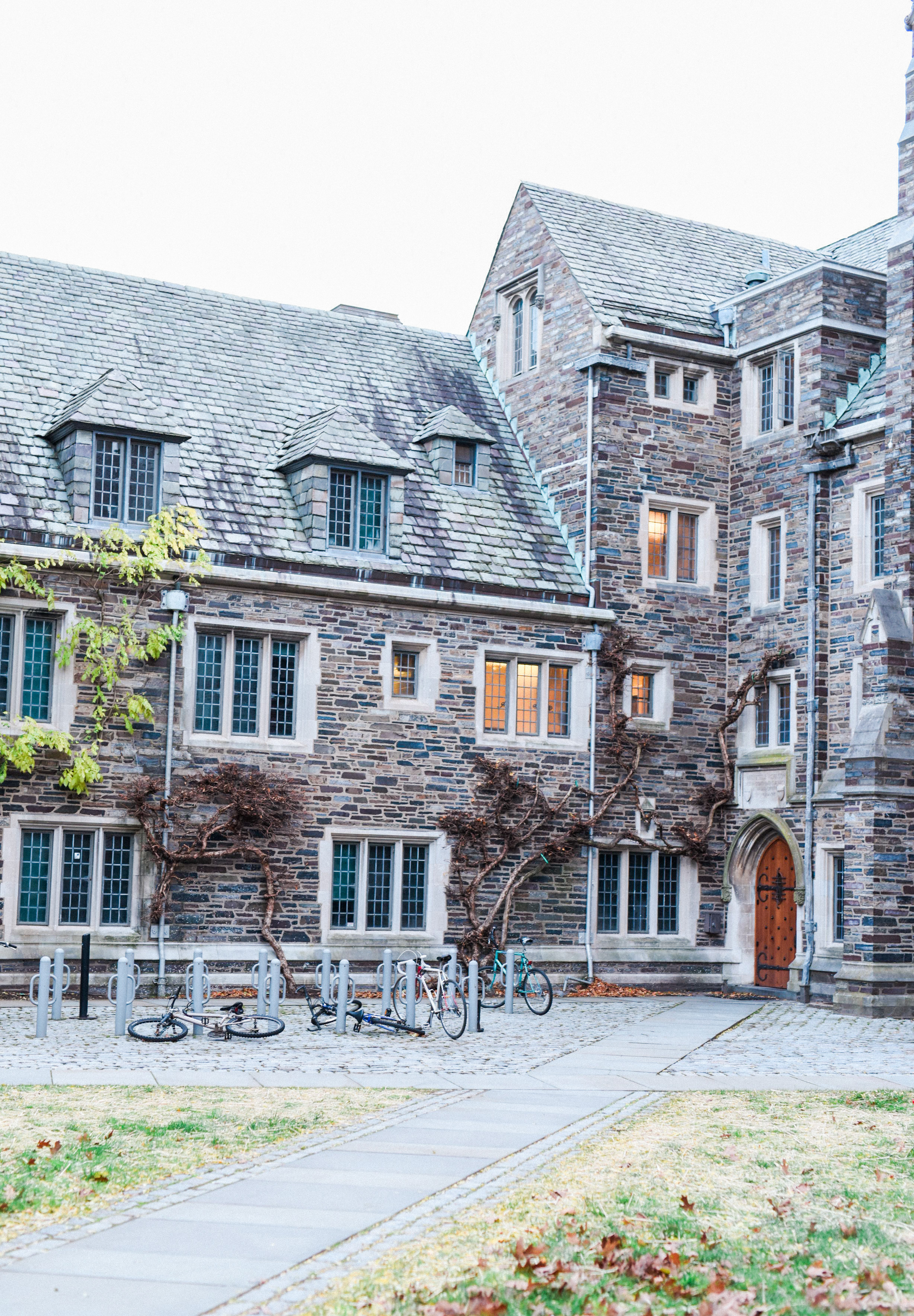 The Princeton campus, December 2016.